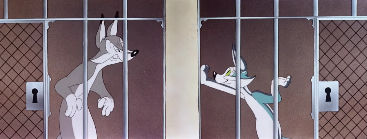 An extended wide screenshot of the American traditional animated short film Fox Pop in the Merrie Melodies series. This depicts a (silver-painted) fox (right) and his mate grey fox (left) meeting in the cell.